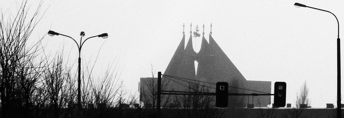 Jan Bosco-church in Poznan.